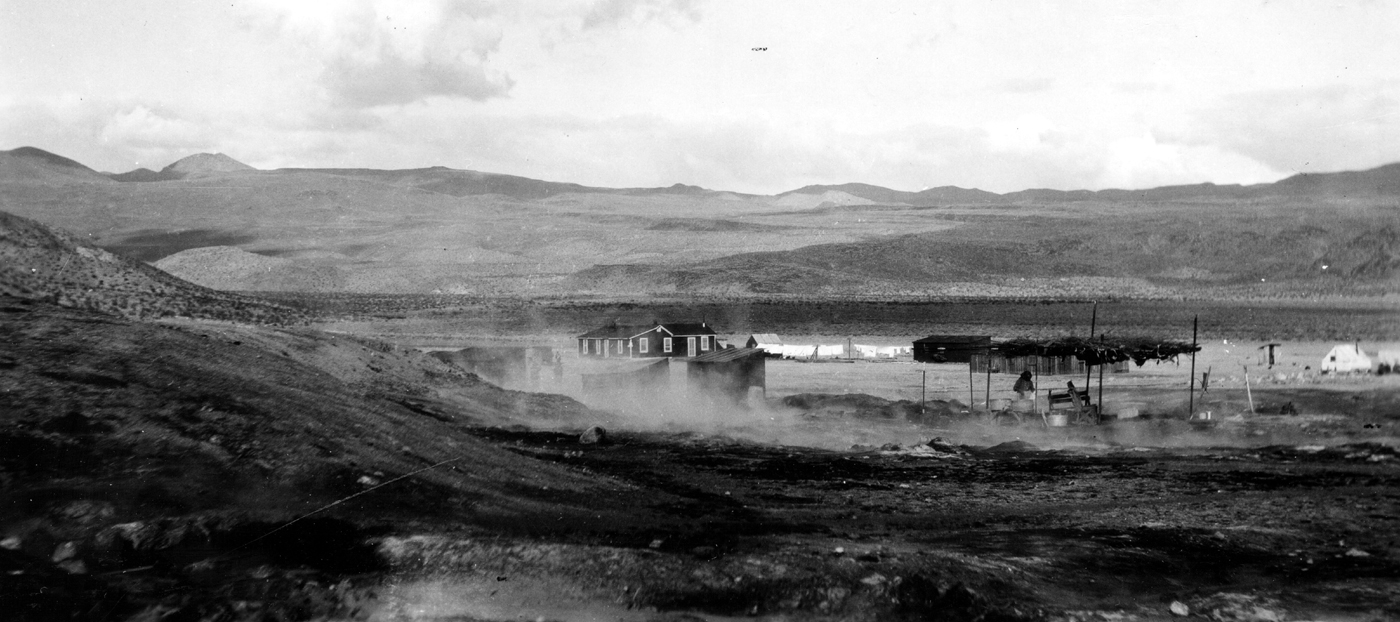 Coso Hot Springs in the Coso Range (1920) — located in the Mojave Desert and southwestern Inyo County, California. Sacred place of the indigenous Coso people and Northern Paiute people. Within the present day Naval Air Weapons Station China Lake base (sec. 1, T. 22 S., R. 39 E.), and inaccessible to the public.